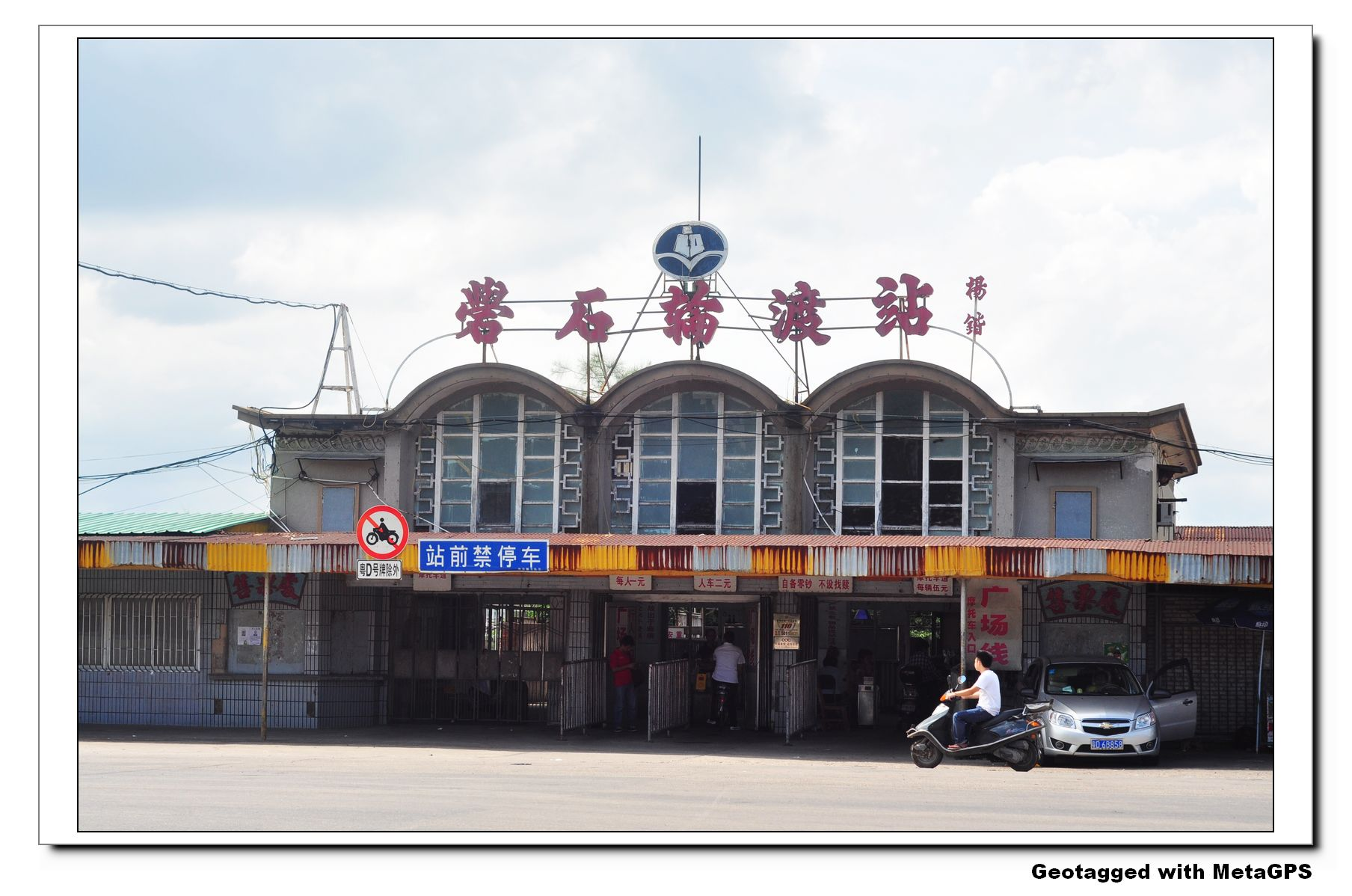 Kakchio Ferry Terminal, Swatow, Kwangtung 粵語: 廣東汕頭礐石輪渡站